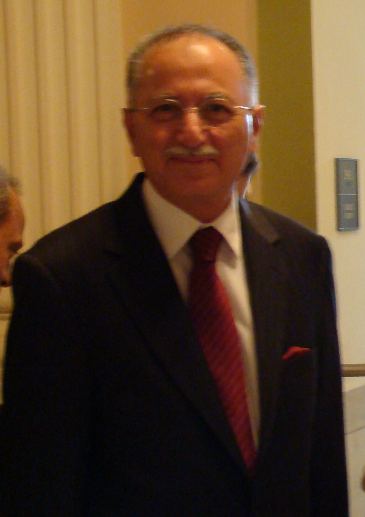 Portrait of Ekmeleddin İhsanoğlu, Secretary-General of the Organisation of the Islamic Conference.